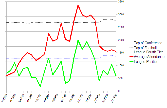 Kidderminster Harriers League Progress 1983-2010